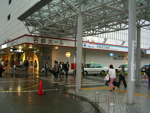 Meitetsu Nagoya Station entrance. This picture was taken by Endroit on May 7, 2006.Endroit